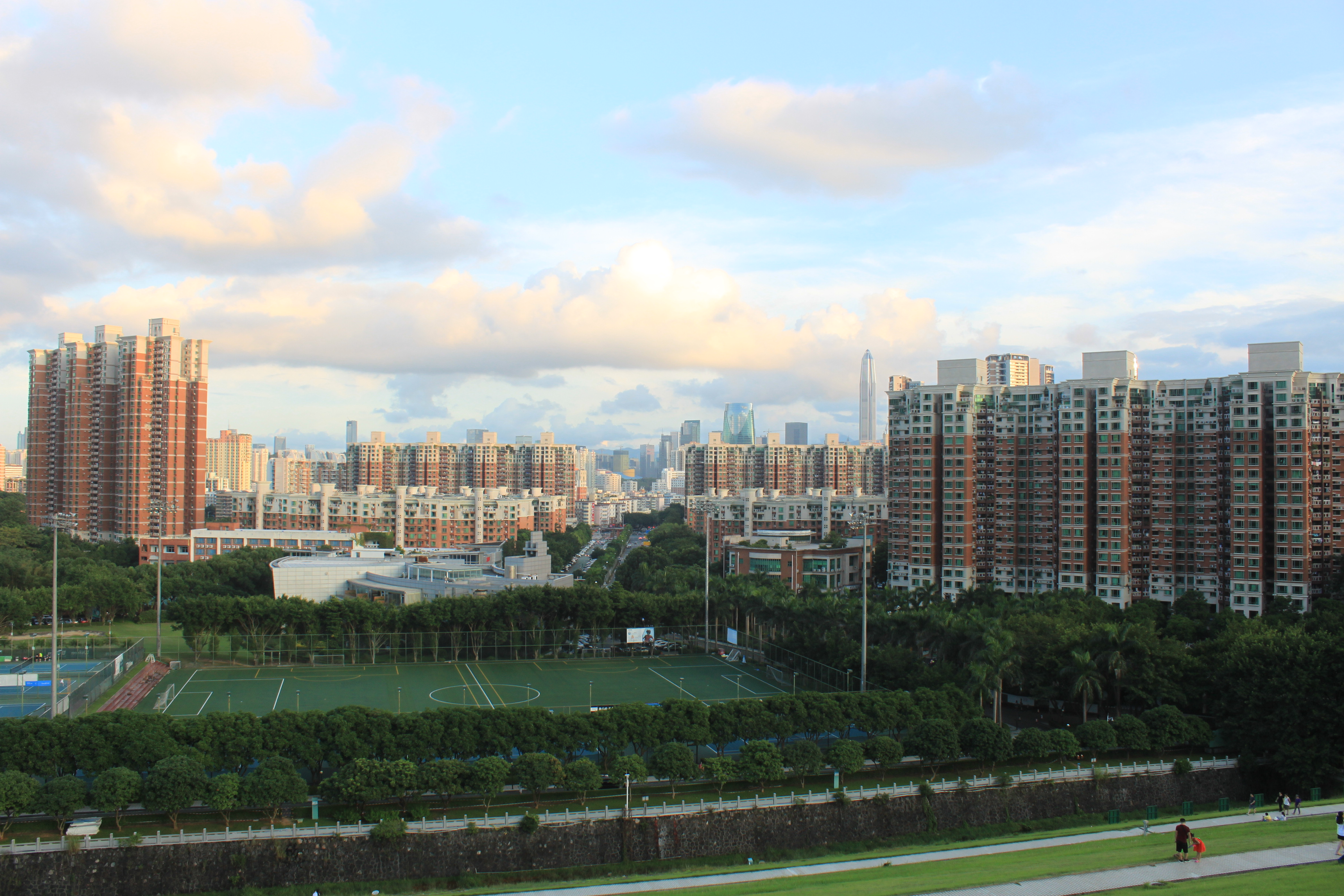 Shenzhen Skyline from Meilin Reservoir Dam. 中文（中国大陆）: 从深圳市福田区梅林水库大坝远眺深圳市。